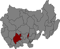 Location of Balaguer in Noguera